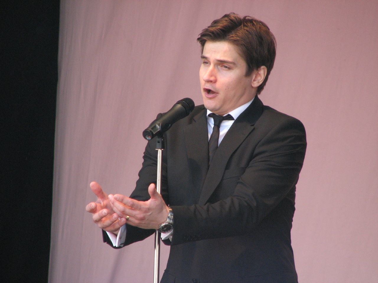 Icelandic tenor Garðar Thór Cortes performing at Covent Garden in London, UK.